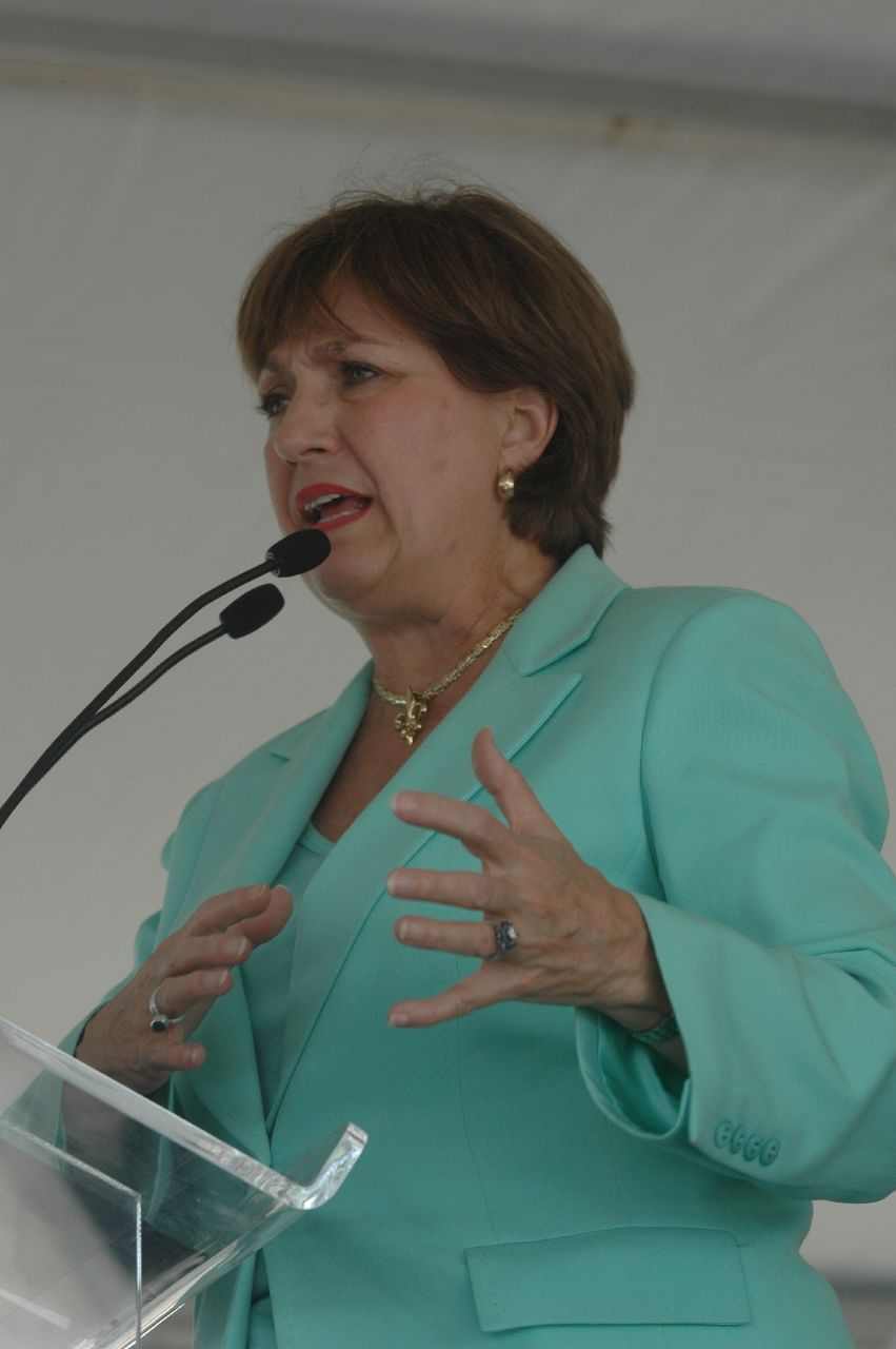 Kathleen Blanco, Governor of Louisiana, speaks at the dedication of the Southeast Louisiana Regional Ice Hub in Chalmette, Louisiana.